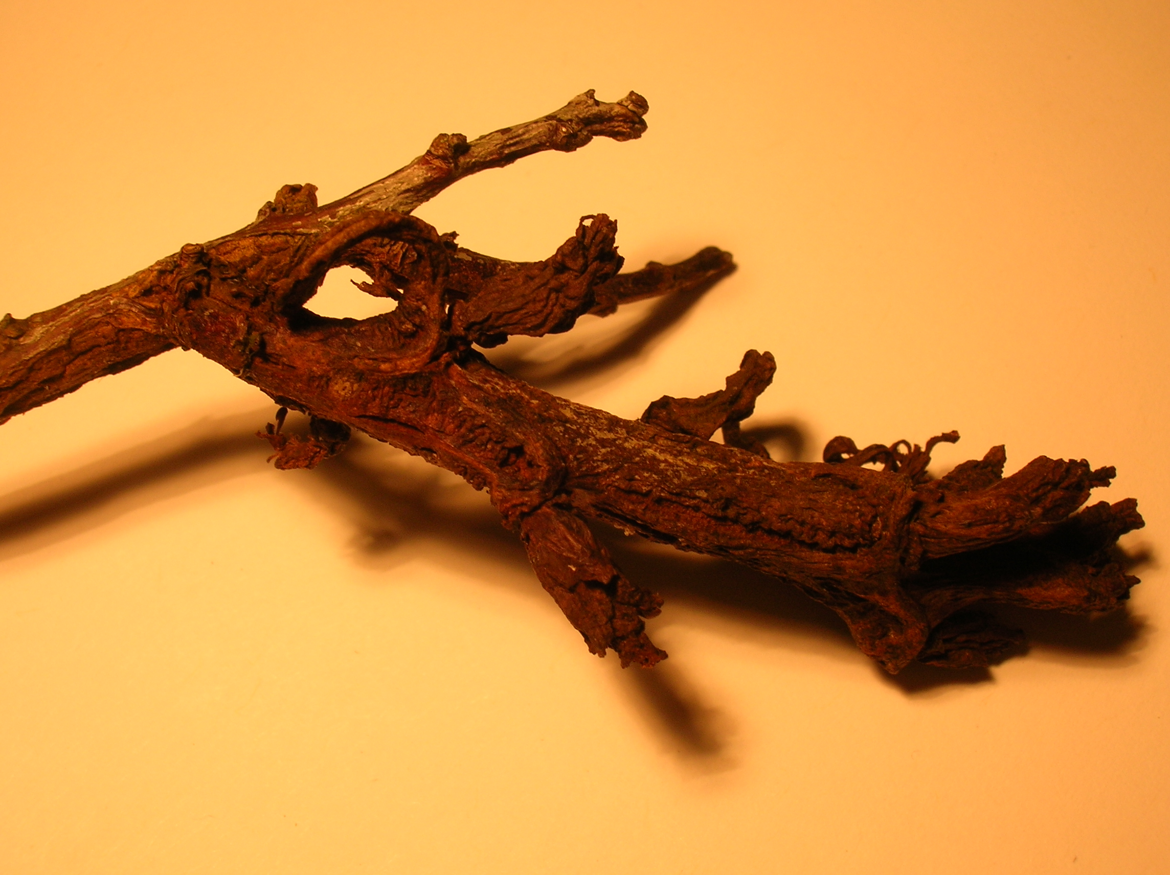 Deformed Blackthorn twig infected with Taphrina pruni, Eglinton, Ayrshire, Scotland.